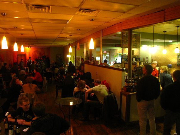 The interior of the Root Note